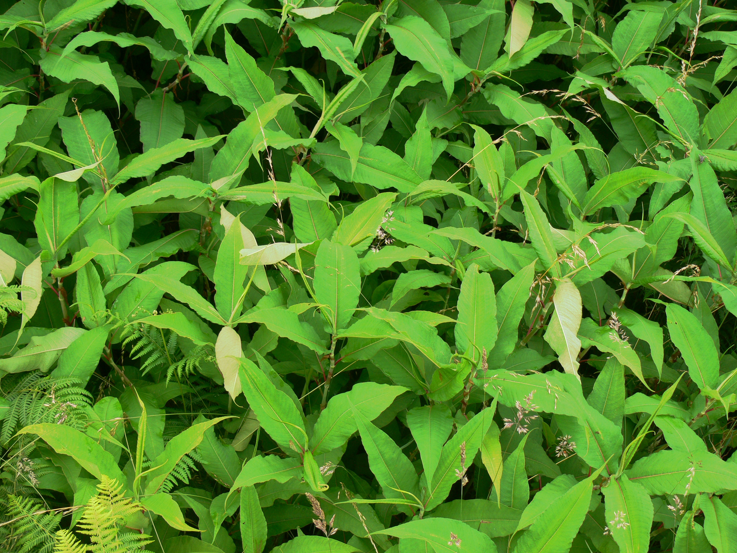 Polygonum polystachyum in Finistère (Britany, W of France). This plant introduced in this country is locally invasive. It is a species of flowering plant in the knotweed family known by the common names Himalayan knotweed and cultivated knotweed.